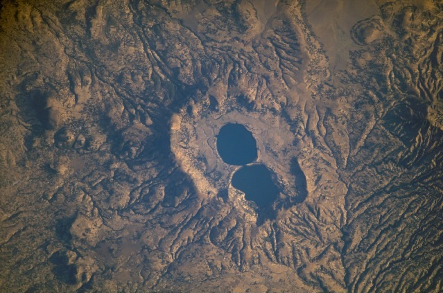 Dendi Caldera, Ethiopia is featured in this image photographed by an Expedition 16 crew member on the International Space Station. The Dendi Caldera is located on the Ethiopian Plateau, approximately 86 kilometers to the southwest of Addis Ababa. A caldera is a geological feature formed by the near-total eruption of magma from beneath a volcano, leading to collapse of the volcanic structure into the now-empty magma chamber. This collapse typically leaves a crater or depression where the volcano stood, and later volcanic activity can fill the caldera with younger lavas, ash, pyroclastic rocks, and sediments. While much of the volcanic rock in the area is comprised of basalt erupted as part of the opening of the East African Rift, more silica-rich rock types (characterized by minerals such as quartz and feldspar) are also present. According to scientists, the approximately 4 kilometers wide Dendi Caldera includes some of this silica-rich volcanic rock -- the rim of the caldera, visible in this view, is comprised mainly of poorly-consolidated ash erupted during the Tertiary Period (approximately 65 -- 2 million years ago). A notable feature of the Dendi Caldera is the presence of two shallow lakes formed within the central depression (center). This image also highlights a radial drainage pattern surrounding the remnants of the Dendi volcanic cone. Such patterns typically form around volcanoes, as rainfall has equal potential to move downslope on all sides of the cone and incise channels. No historical volcanic eruptions of Dendi are recorded, however the Wonchi Caldera 13 kilometers to the southwest (not shown) may have been active as "recently" as A.D. 550, say NASA scientists.